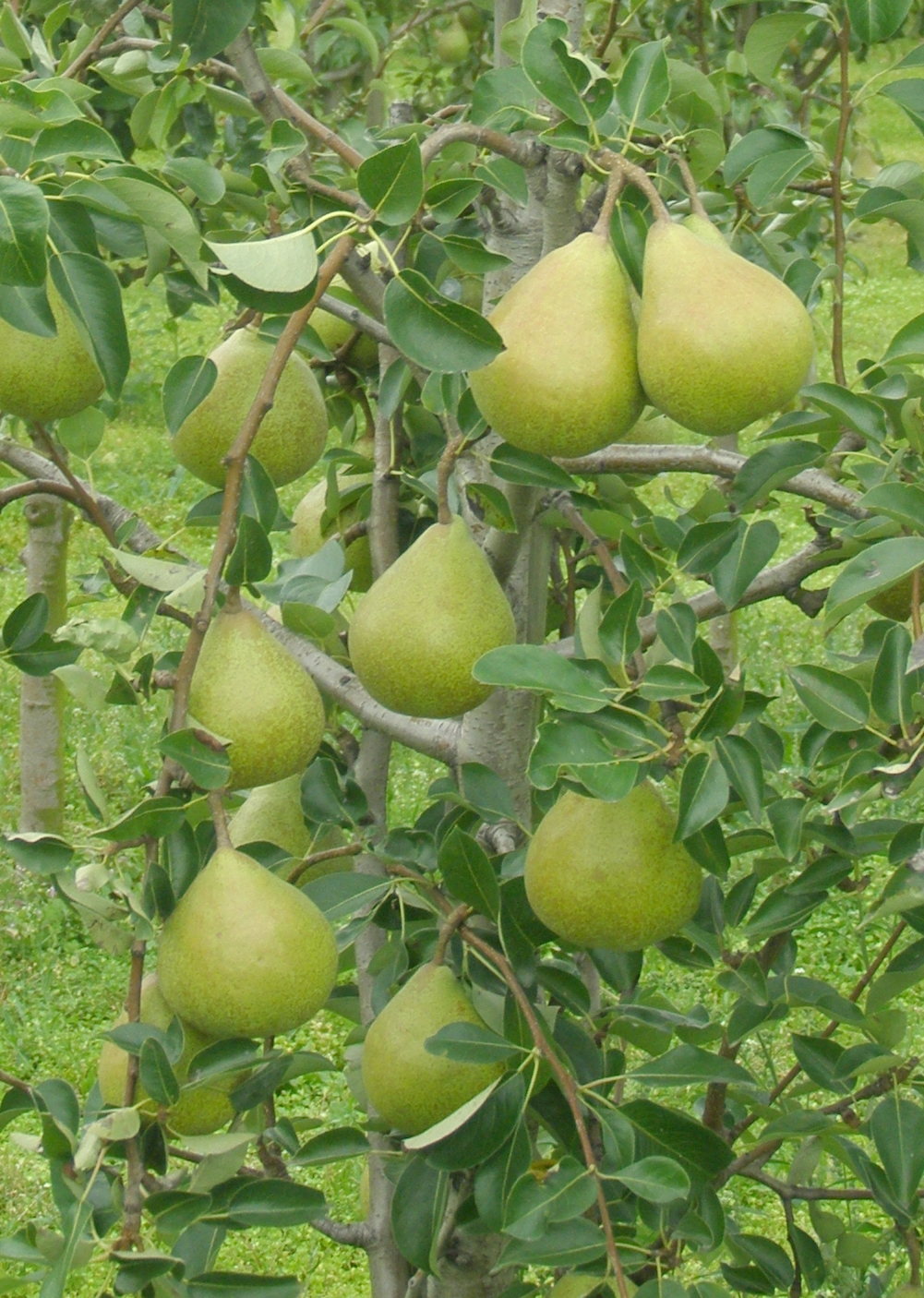 Fruits of Carola Pear